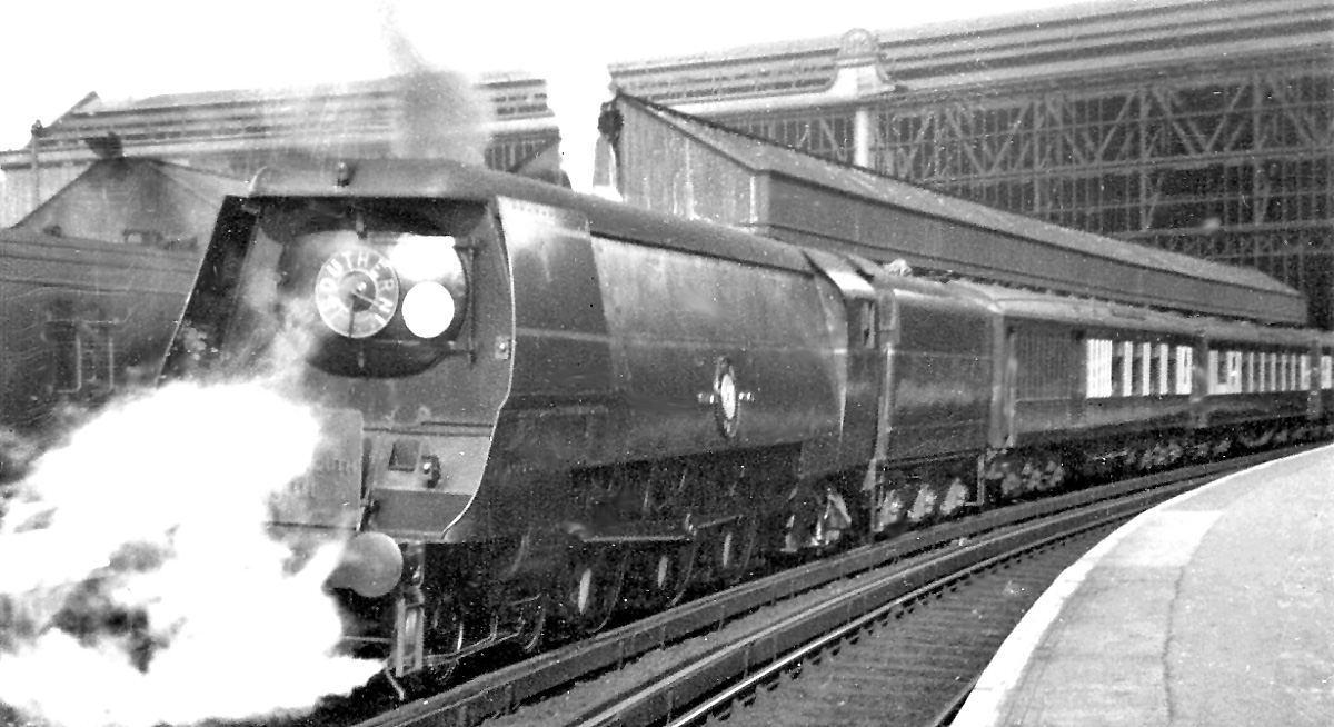 'Bournemouth Belle' leaving Waterloo View towards bufferstops: ex-LSW London terminus of main lines to the West. The 'Bournemouth Belle' (12.30 Waterloo - Bournemouth West) was the first Pullman express to be restored after the War and this is its fourth run. Bulleid Pacific No. 21C18 'British India Line' was built 5/45, rebuilt 2/56 and withdrawn 8/64.